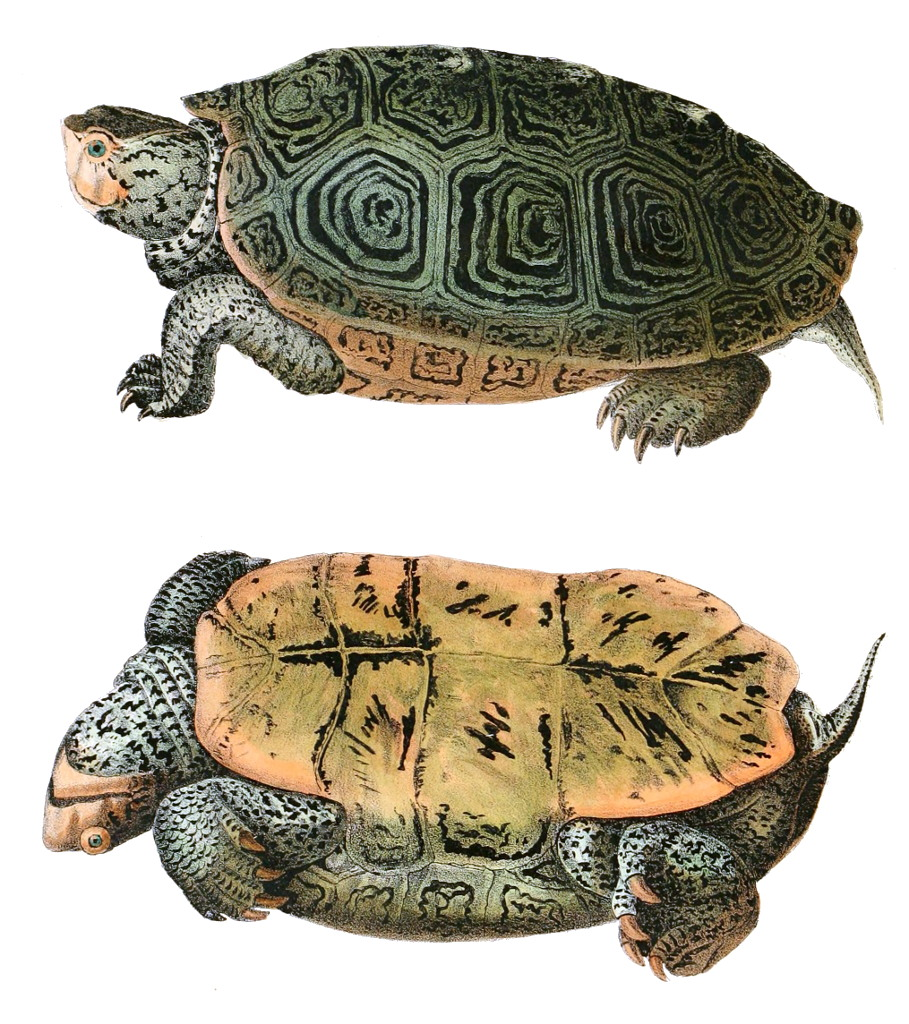 Diamondback terrapin, Malaclemys terrapin, hand-colored lithograph